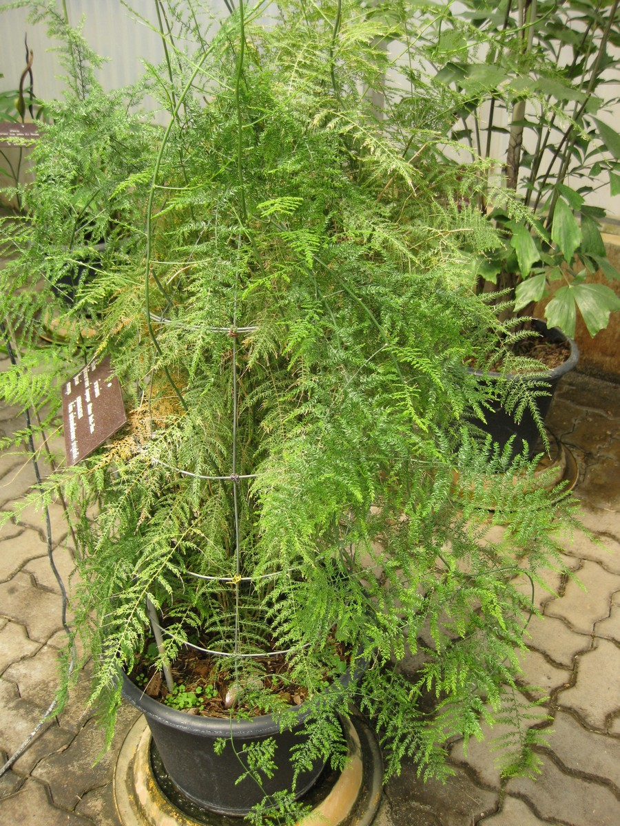 Photographed at the Queen Sirikit Botanic Garden (Chiang Mai Province, Thailand) in March